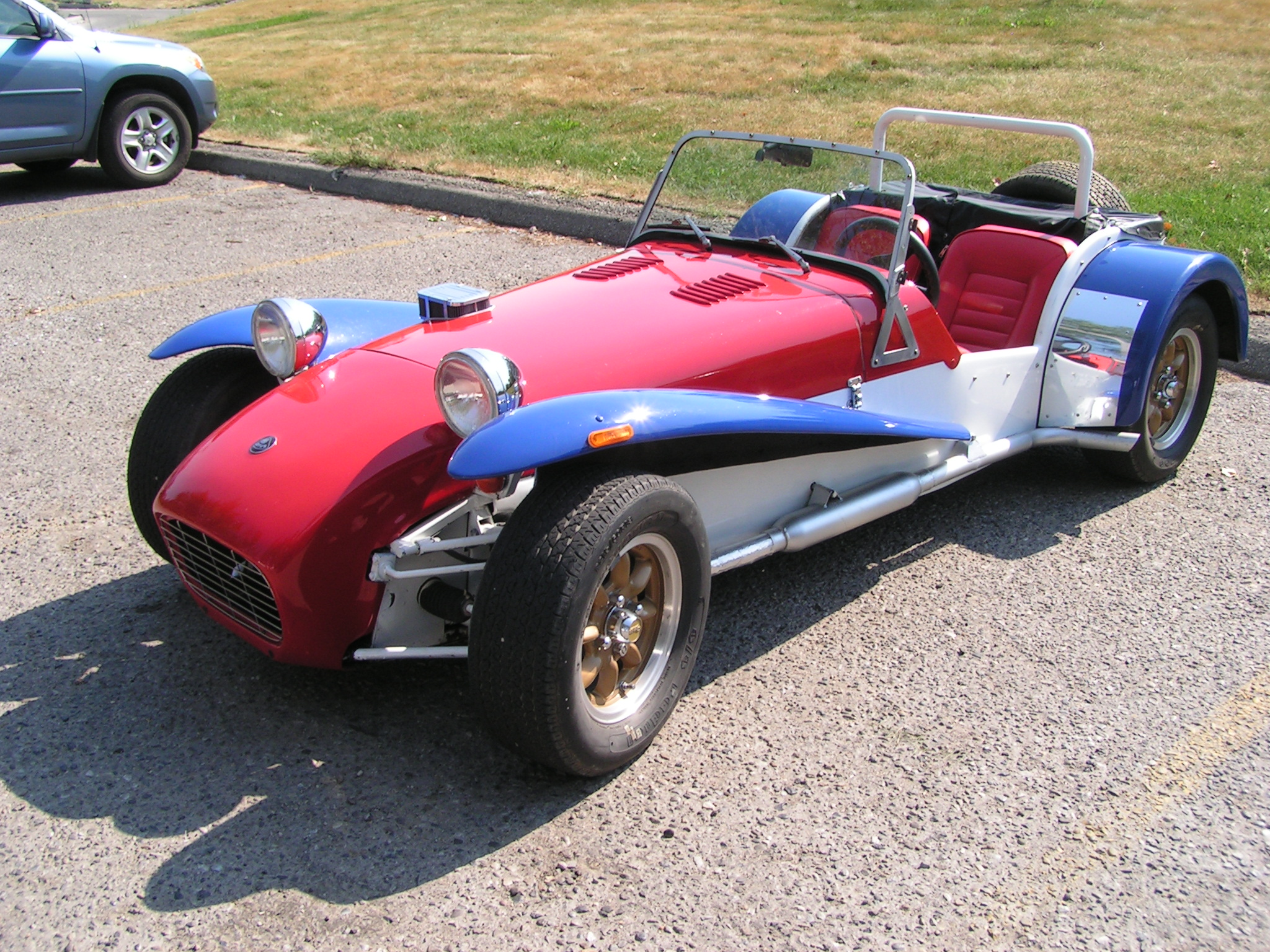 Some of the most interesting cars end up in the parking area. A very nice original Lotus Seven. Cool colour scheme. I wonder if an American painted it ...Lotus Seven